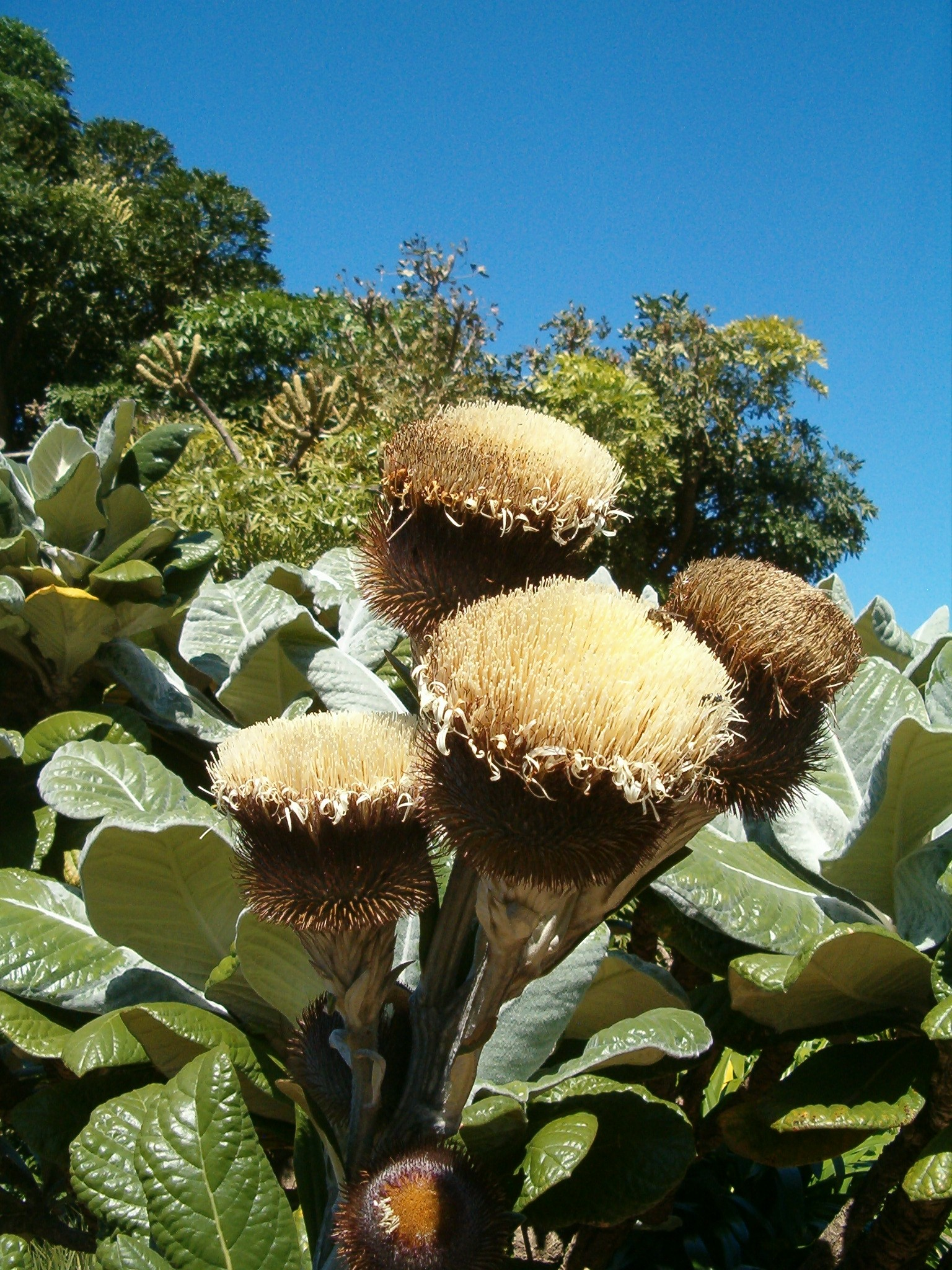 At Kirstenbosch National Botanical Gardens Species Oldenburgia grandis